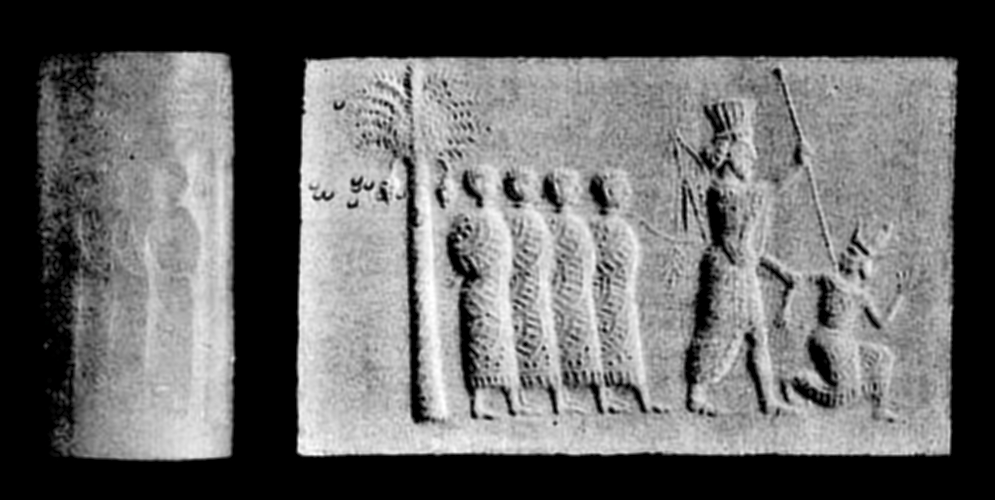 Zvenigorodsky seal